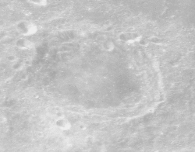 Oblique view of Berosus crater, on the moon. Taken by Apollo 16 panoramic camera during Trans-Earth Injection. Brightness and contrast adjusted in GIMP.